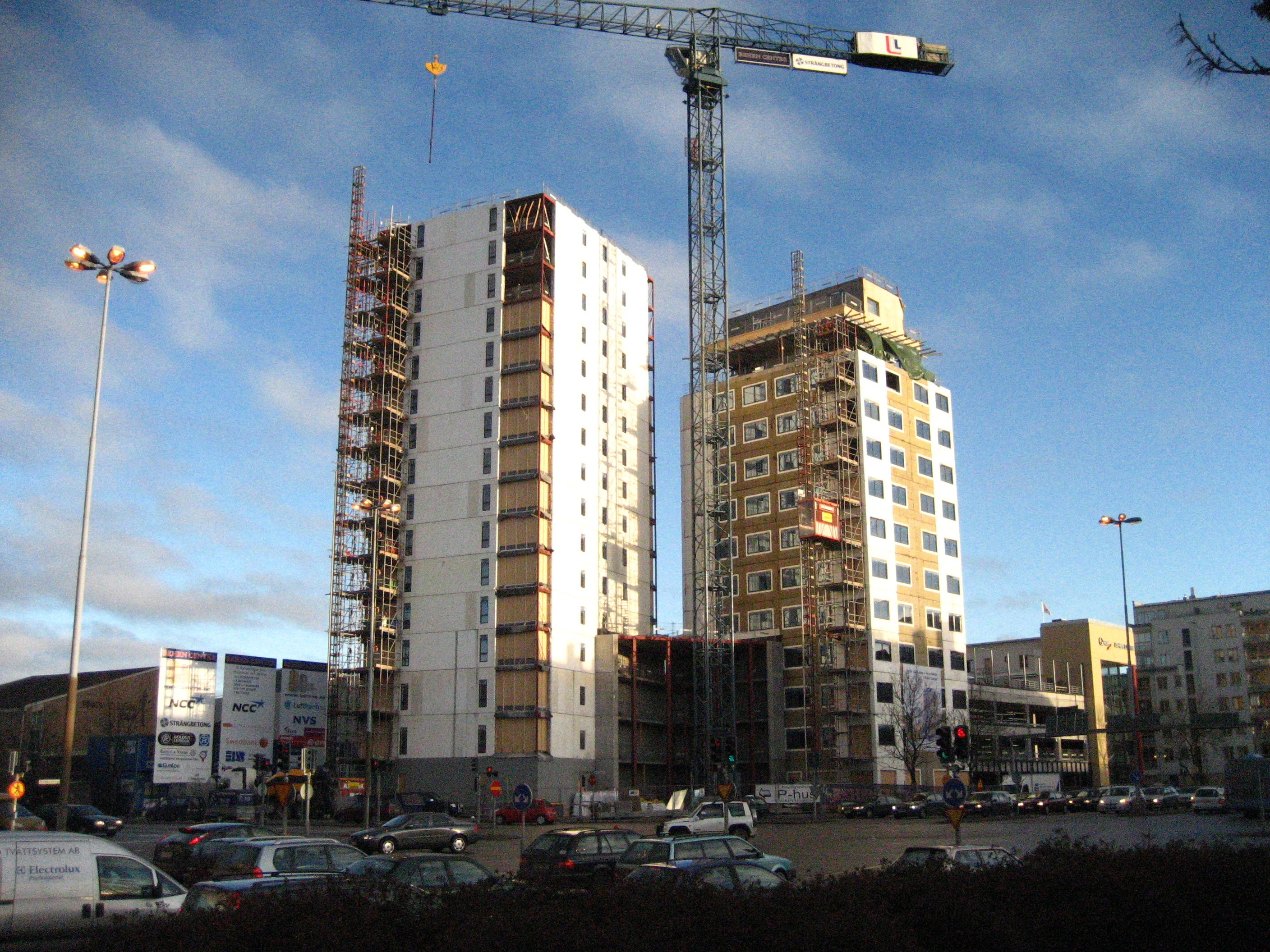 Behrn Center, Örebro Sweden